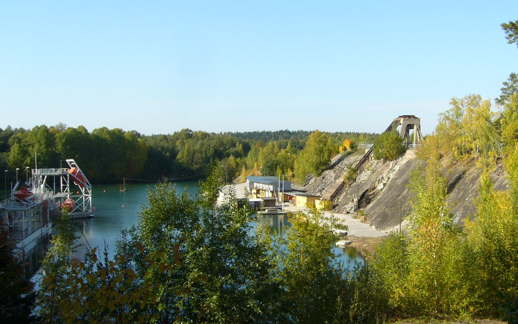 The abandoned Ojamo limestone mine, now being used for lifeboat/marine life saving training (on the left) and diving training (in the middle). The mine tower at the right is the only surface building left of the mine, which was closed in 1965.